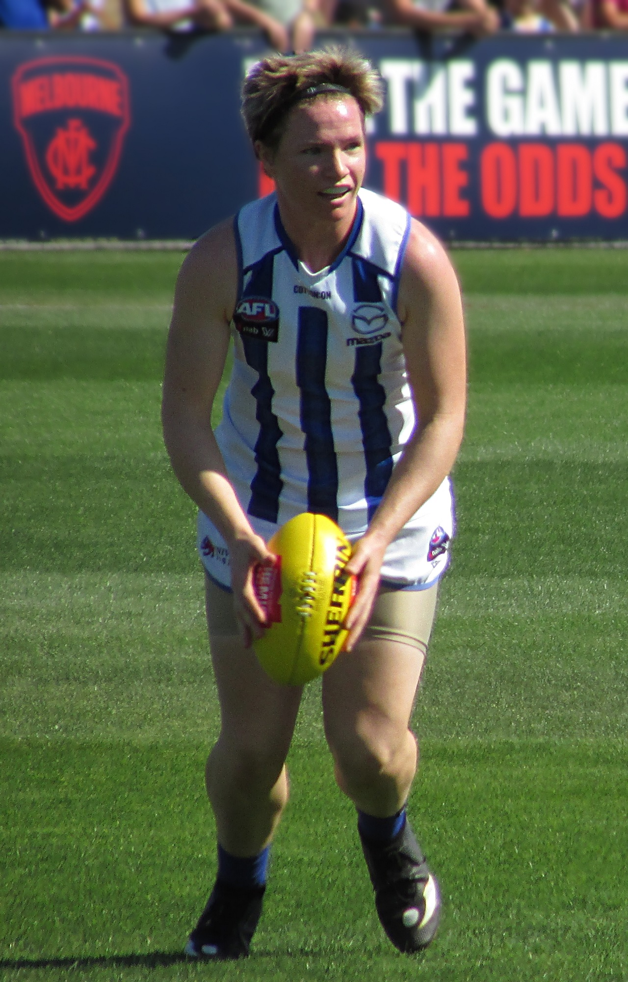 Jess Duffin playing for North Melbourne in an AFL Women's match against Melbourne at Casey Fields in Cranbourne East, VIC.